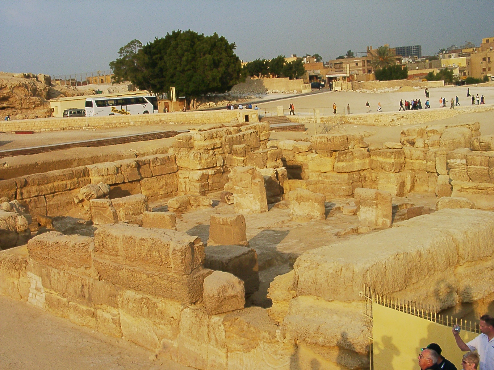 The Sphynx Temple from Khafre's causeway by the Sphynx